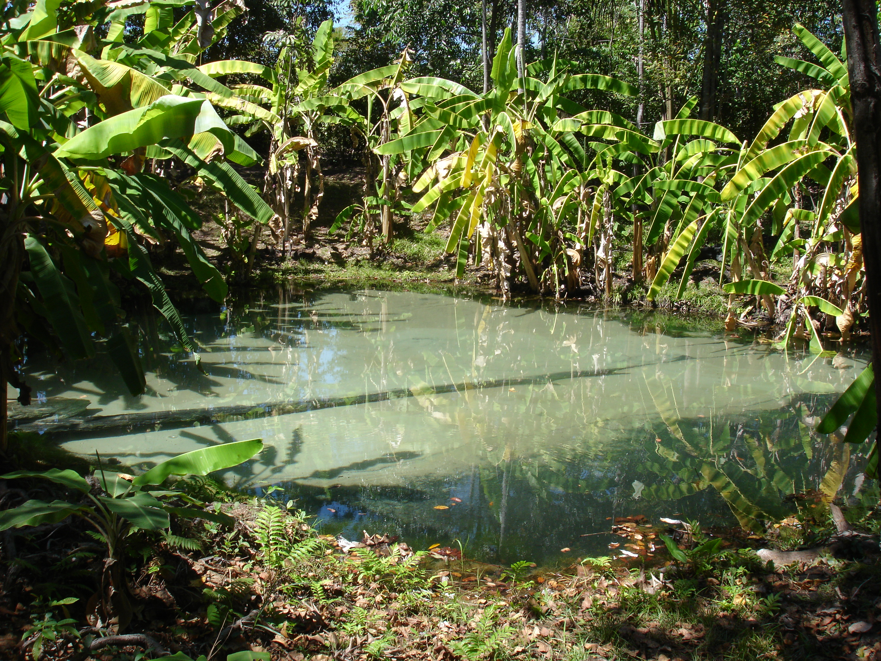 Spring in the bottom of a lake in Jalapão.